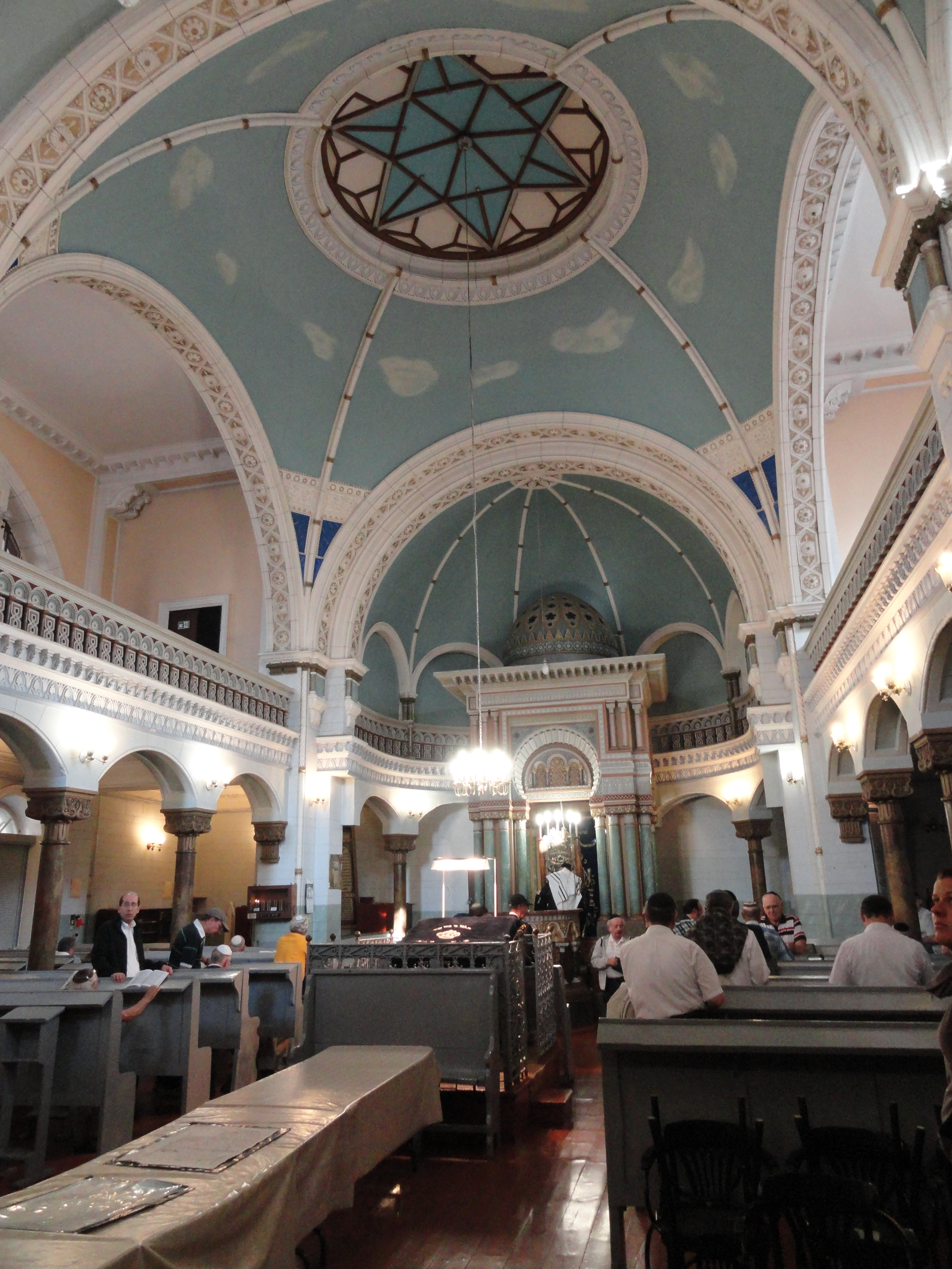 Choral synagogue in Vilnius - Inside